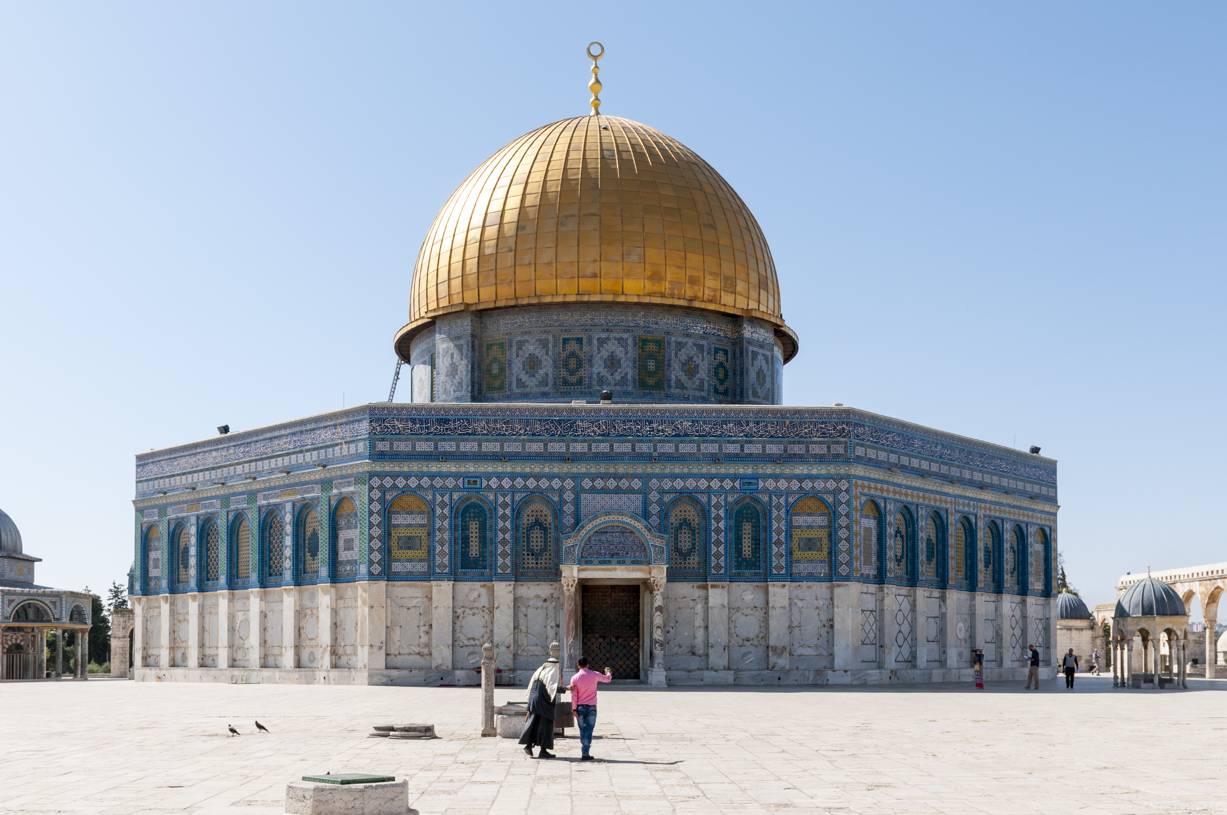 Dome of the Rock on the Temple Mount Jerusalem